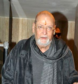 Cropped image of Shammi Kapoor attending Pran's 90th birthday bash